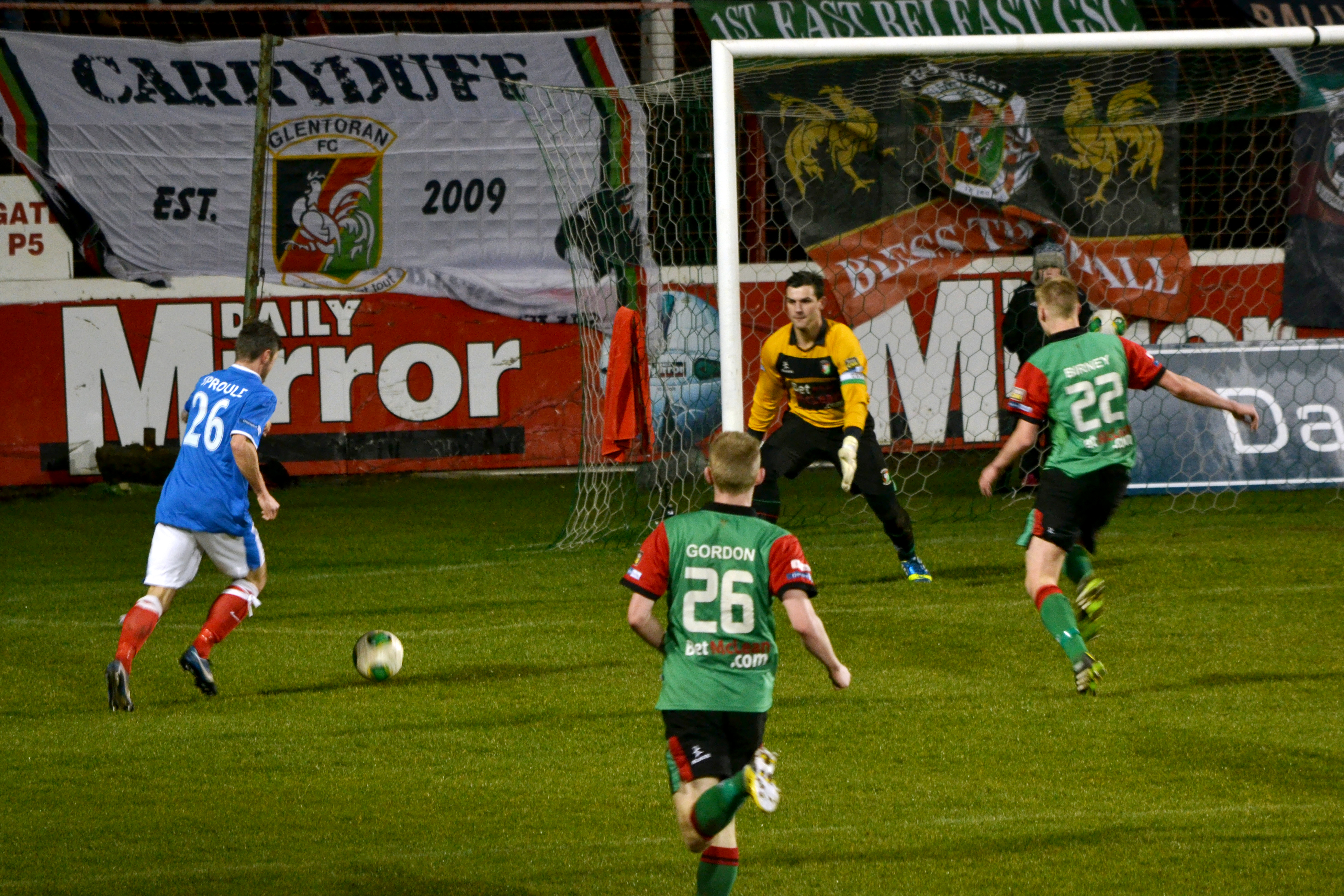 Glentoran 0-1 Linfield, played at the Oval, Belfast on 21 February 2014.